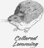 Collared Lemming This arctic mammal has thick fur that turns white in winter and a short tail, small ears, and short legs.